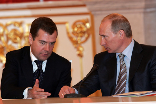 THE KREMLIN, MOSCOW. At the session of the Presidential Council for the Implementation of Priority National Projects and Demographic Policy.